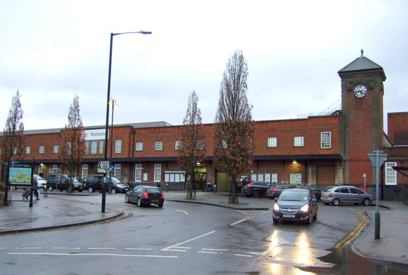 Nuneaton Railway Station